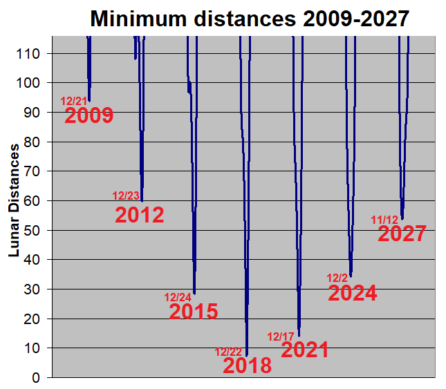 (163899) 2003 SD220 distances from earth at closest approaches from 2009 to 2027. Data from JPL Horizons Ephemeris